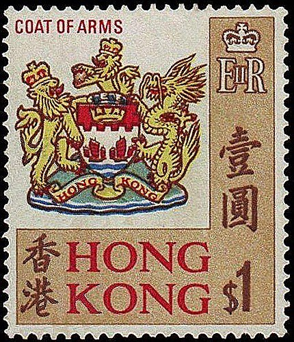 $1 Hong Kong stamps with coat of arms